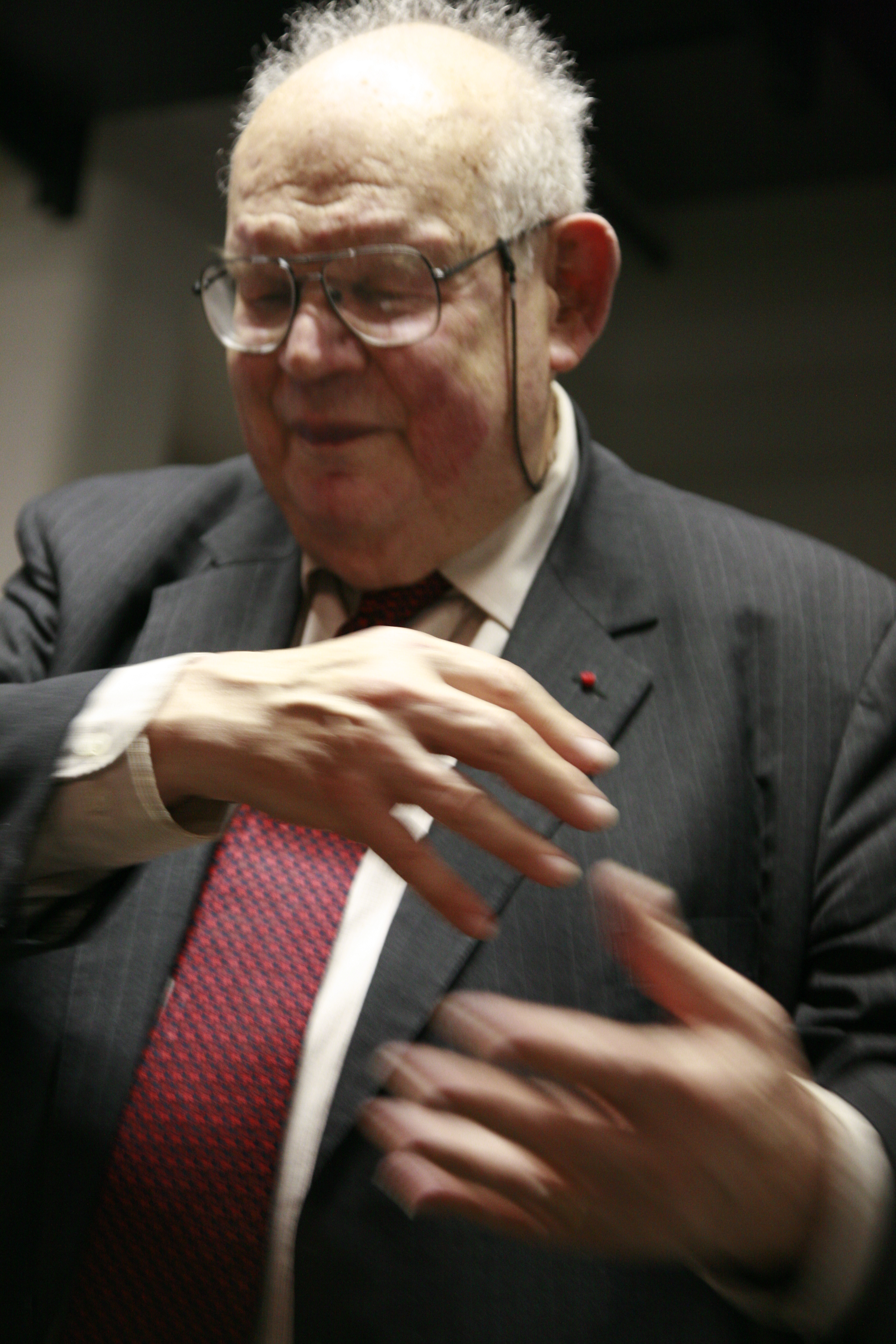 Benoît Mandelbrot at the EPFL, on the 14h of March 2007